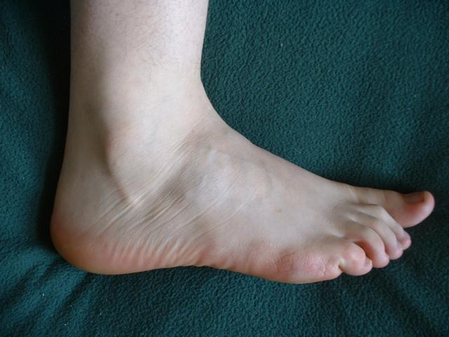 A foot seen fron the (lateral view) outside.